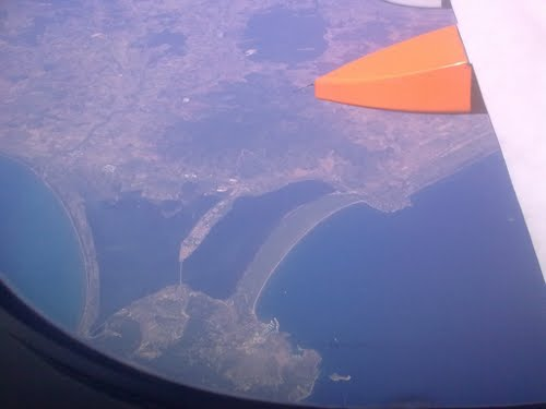 Orbetello Lagoon seen from airplain during a trip.